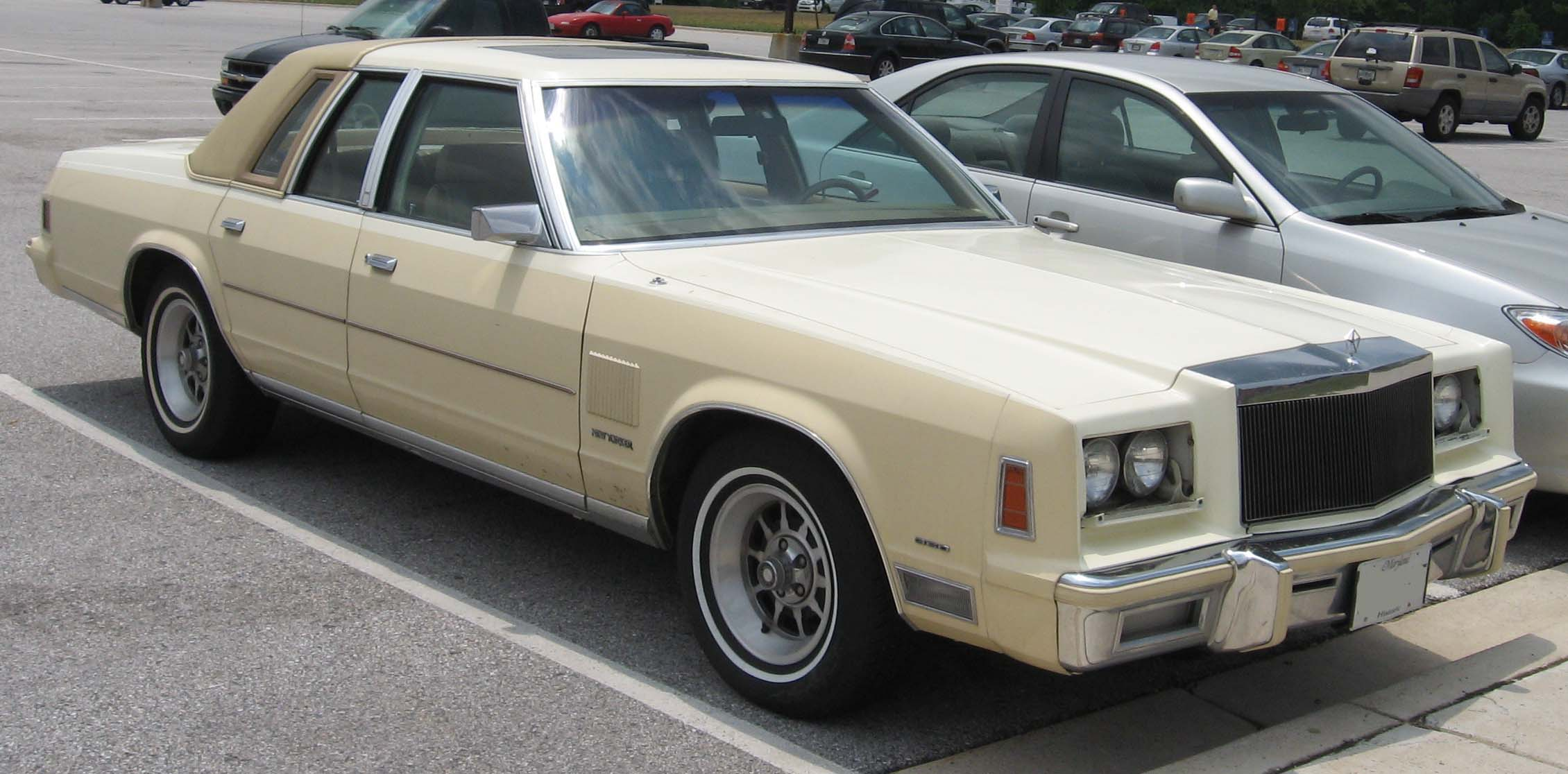 1979-1981 Chrysler New Yorker Fifth Avenue photographed in USA.